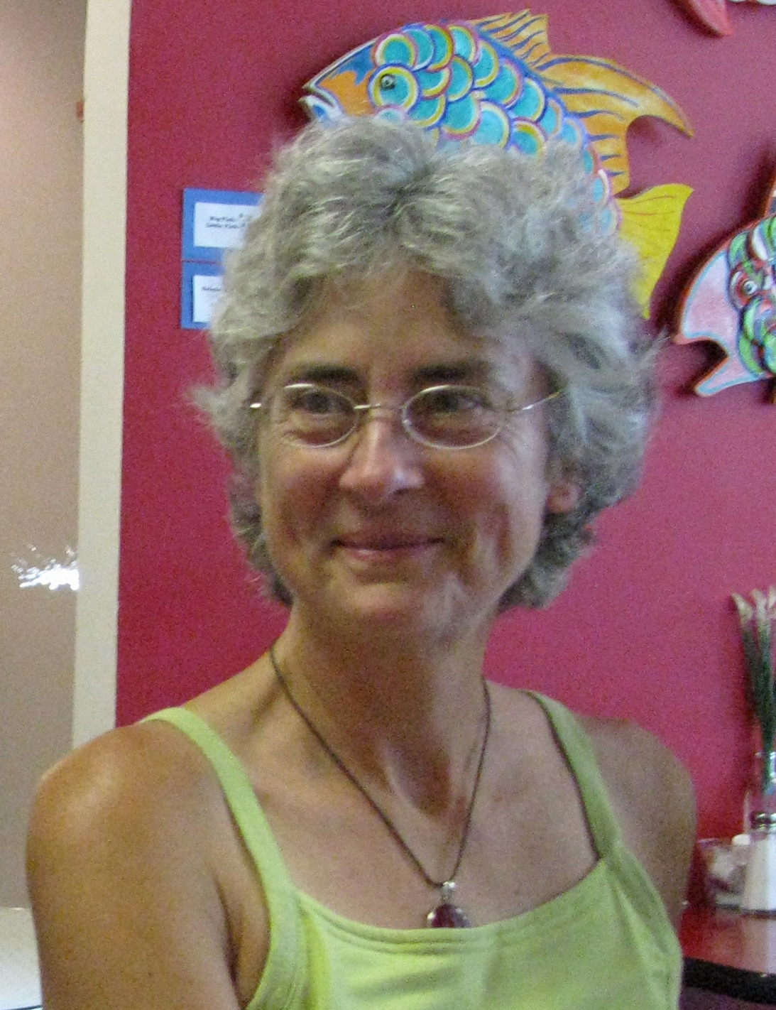 Riki Ott at Mimi's in Jackson, Mississippi. → This file has been extracted from another image: File:Lunch at Mimi's.jpg.